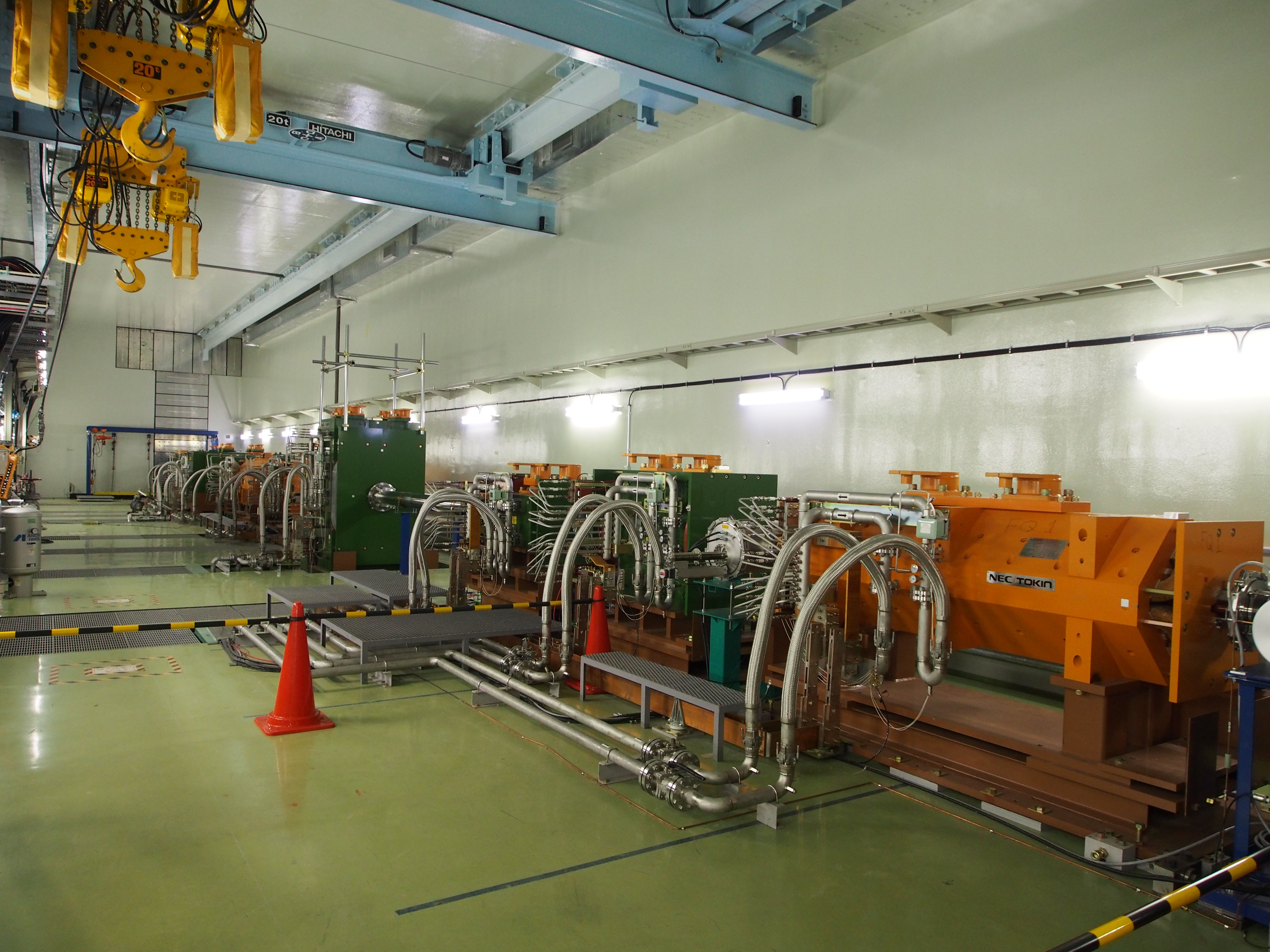 Final Focusing Section of the Neutrino Experiment Facility of J-PARC (Japan Proton Accelerator Complex). It creates high-intensity neutrino beam for T2K experiment. Proton beam is led to the graphite target behind the wall in the left center of this picture. The target will generate various particles including π-mesons, which is led to the decay volume where they decay into muon and muon-neutrino. Photographed on 2016 Open House day.